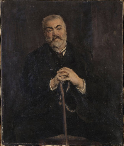 Auguste Guerbois, oil on canvas, portrait by Henri Michel-Lévy — Collection Musée d'Orsay, Paris.